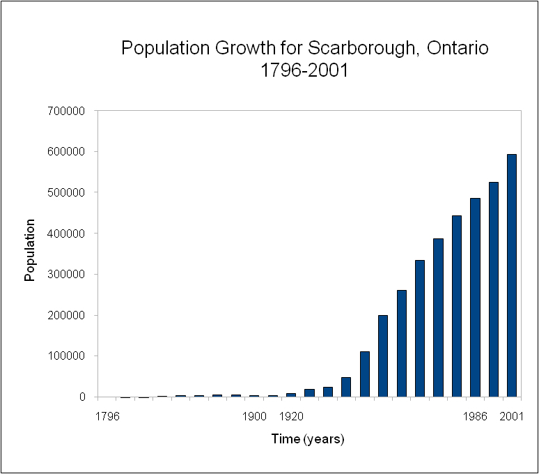 Graph of population growth for Scarborough, Ontario, from 1796-2001.